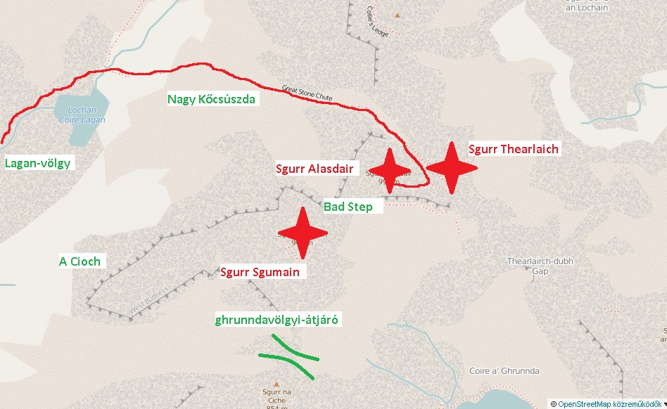 Trails around the summit of Sgurr Alasdair.